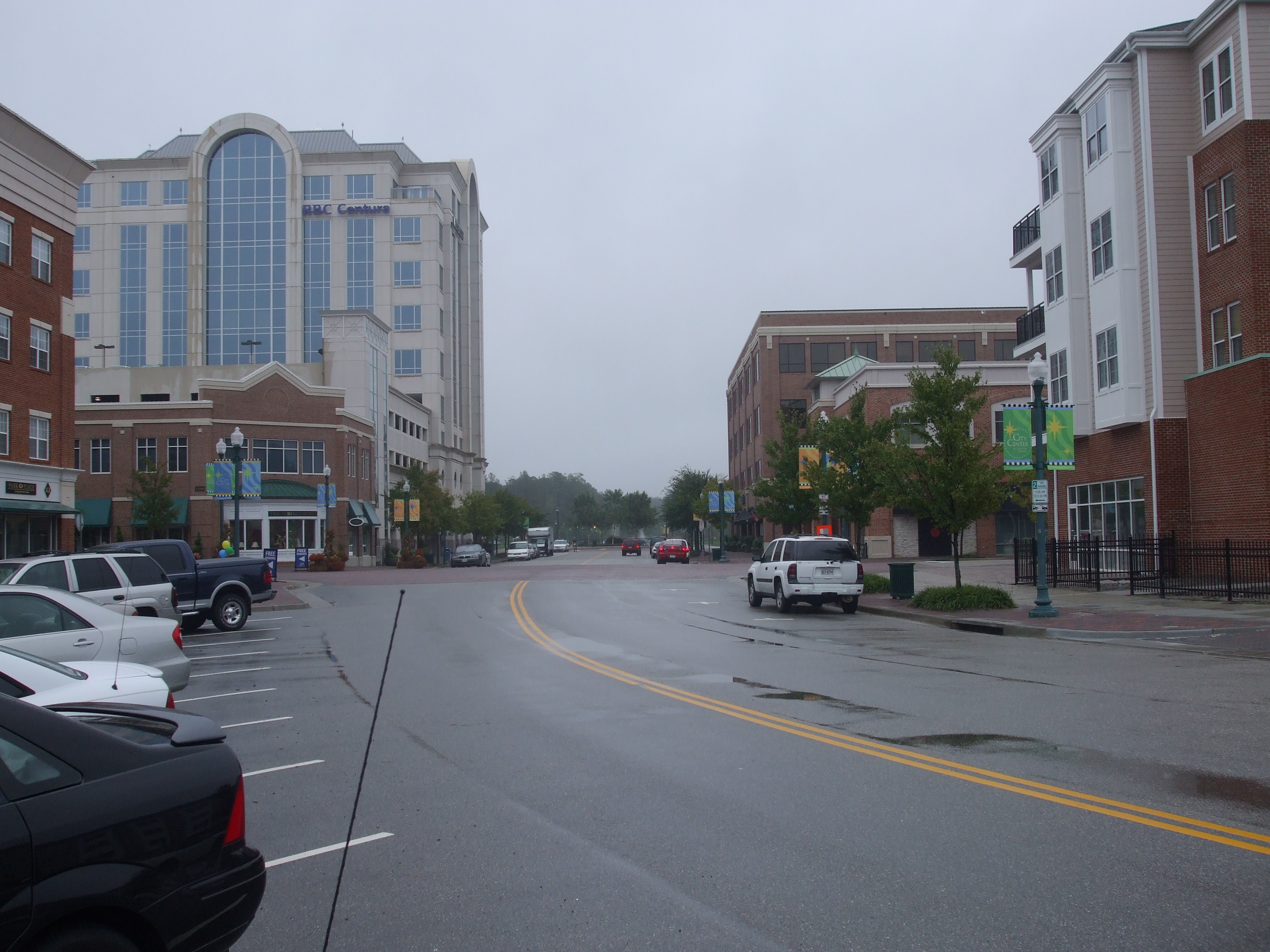 Oyster Point section of Newport News, VA